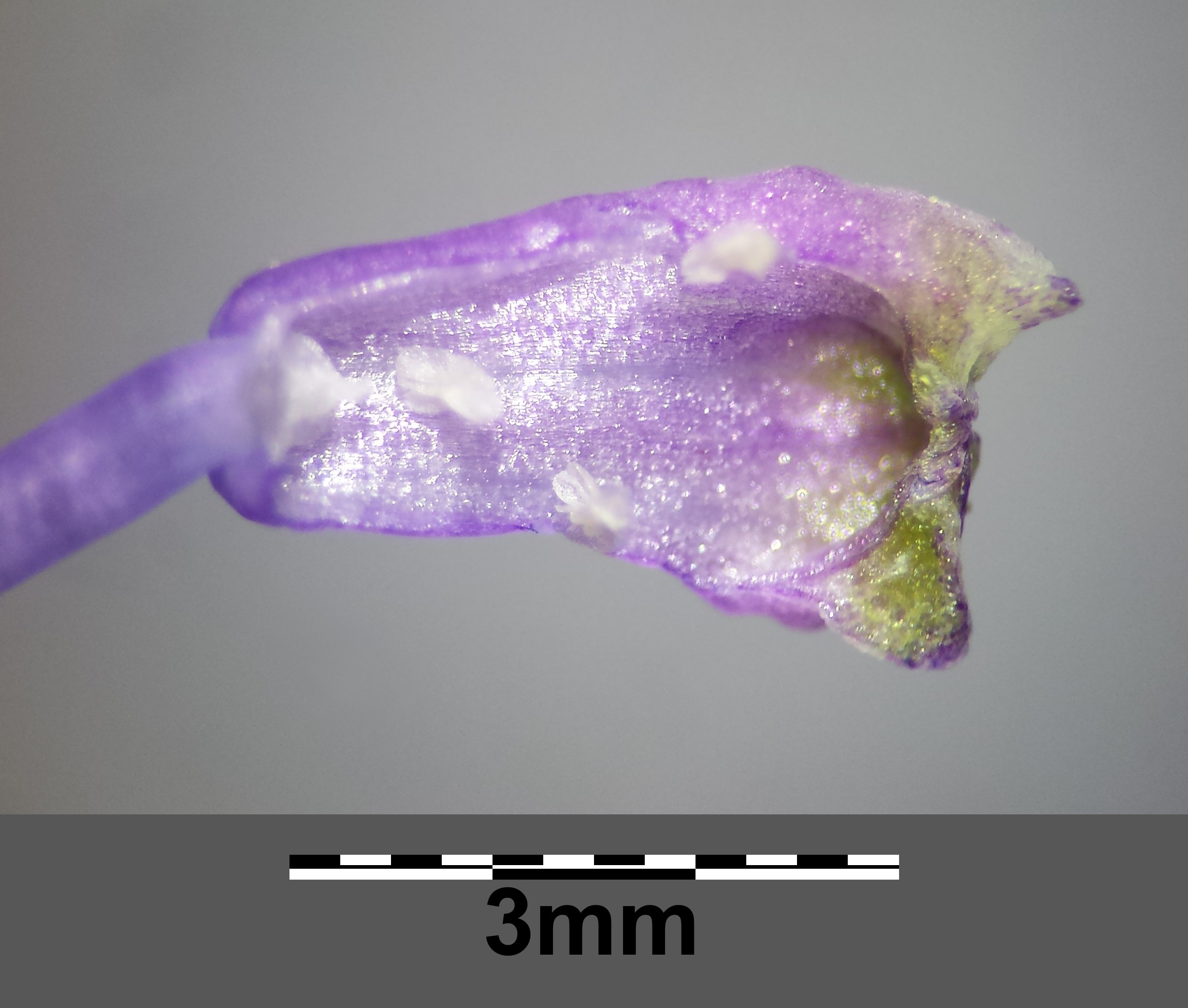 Sterile flower (opened) Taxonym: Muscari comosum ss Fischer et al. EfÖLS 2008 ISBN 978-3-85474-187-9 Location: Waldberg next to Niederkreuzstetten, district Mistelbach, Lower Austria - ca. 250 m a.s.l. Habitat: shrubbery